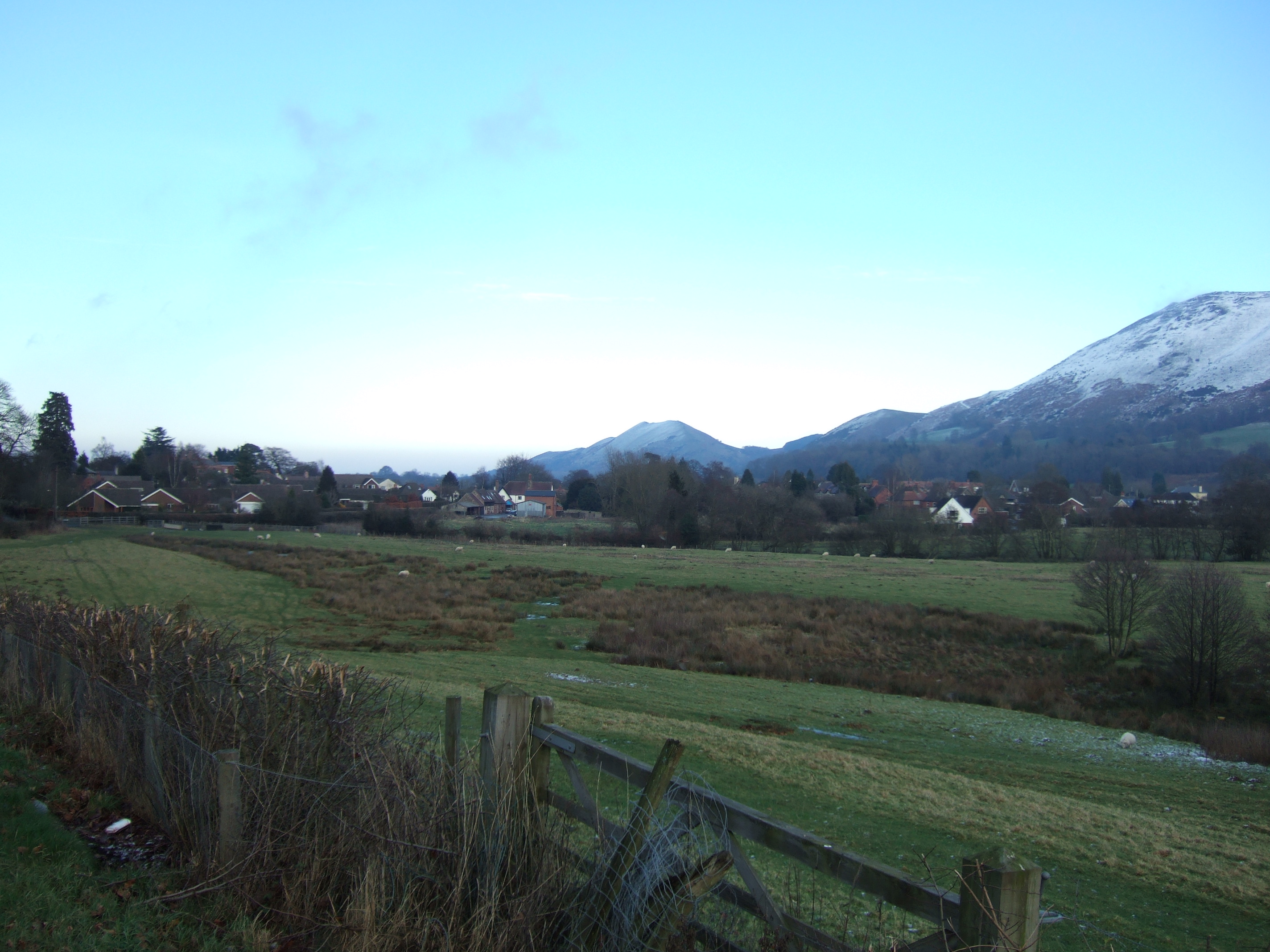 All Stretton from Shrewsbury Road (from the south of the village).